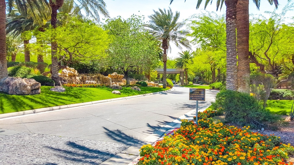 The entrance to MacDonald Highlands in Henderson, Nevada is seen here through a Canon.